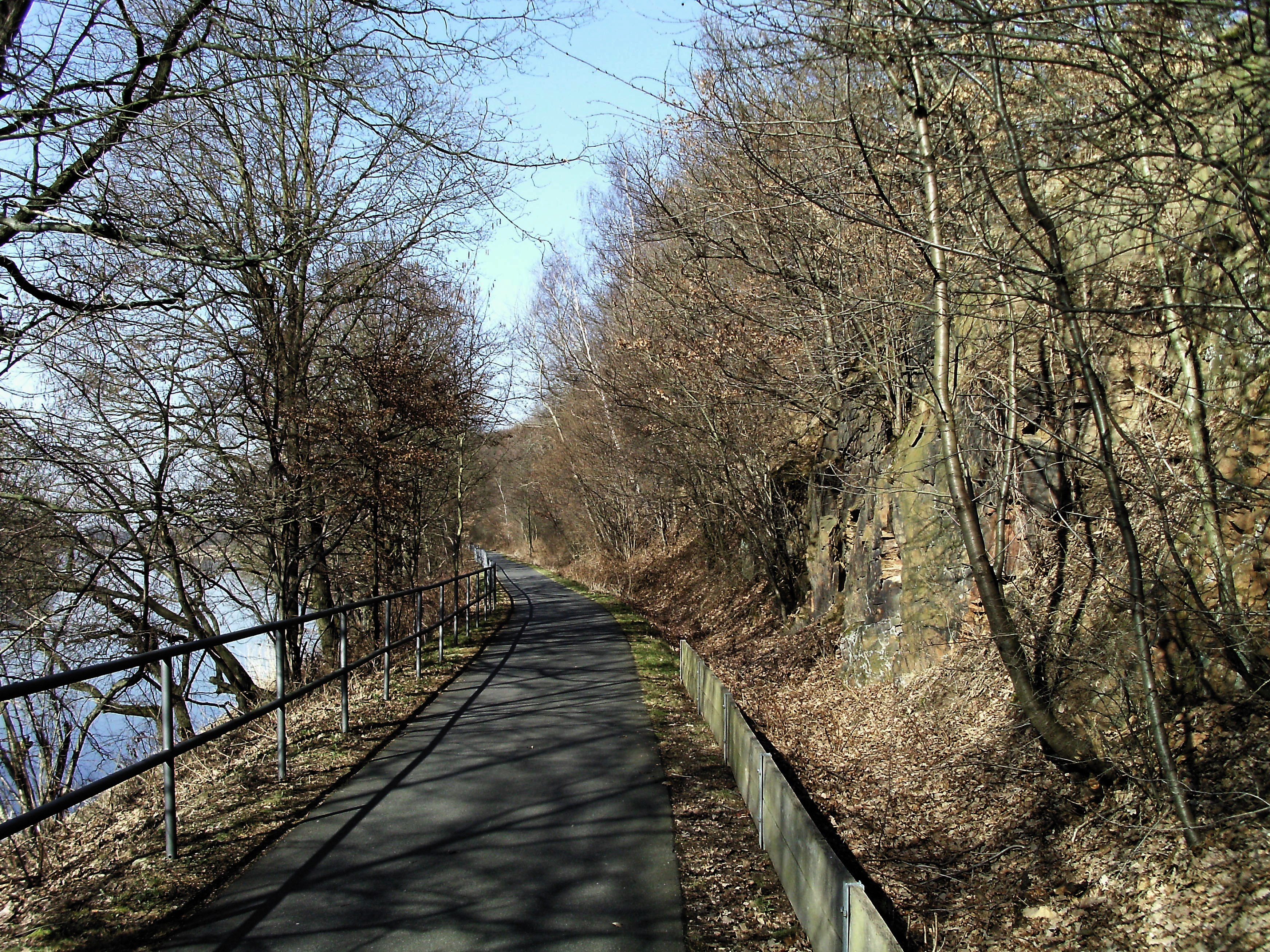 Cycle-track at the former Mulde valley railway line south of Nerchau (Grimma, Leipzig district, Saxony)